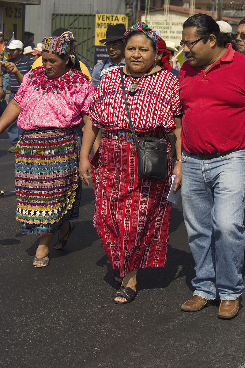 Rigoberta Menchú in the March 2009 march commemorating the anniversary of the signing of the Treaty on Identity and Rights of Indigenous Peoples